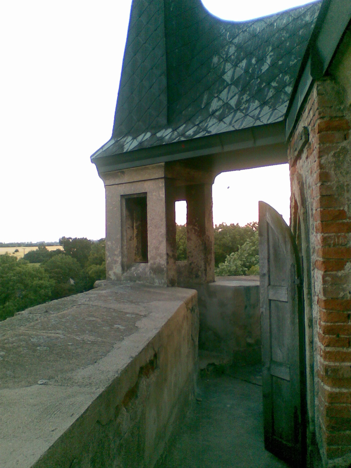 SunsetOnTower